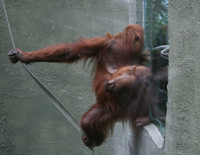 Orangutan meets the public at Chester Zoo Orangutan mother and baby meet the public face to face.